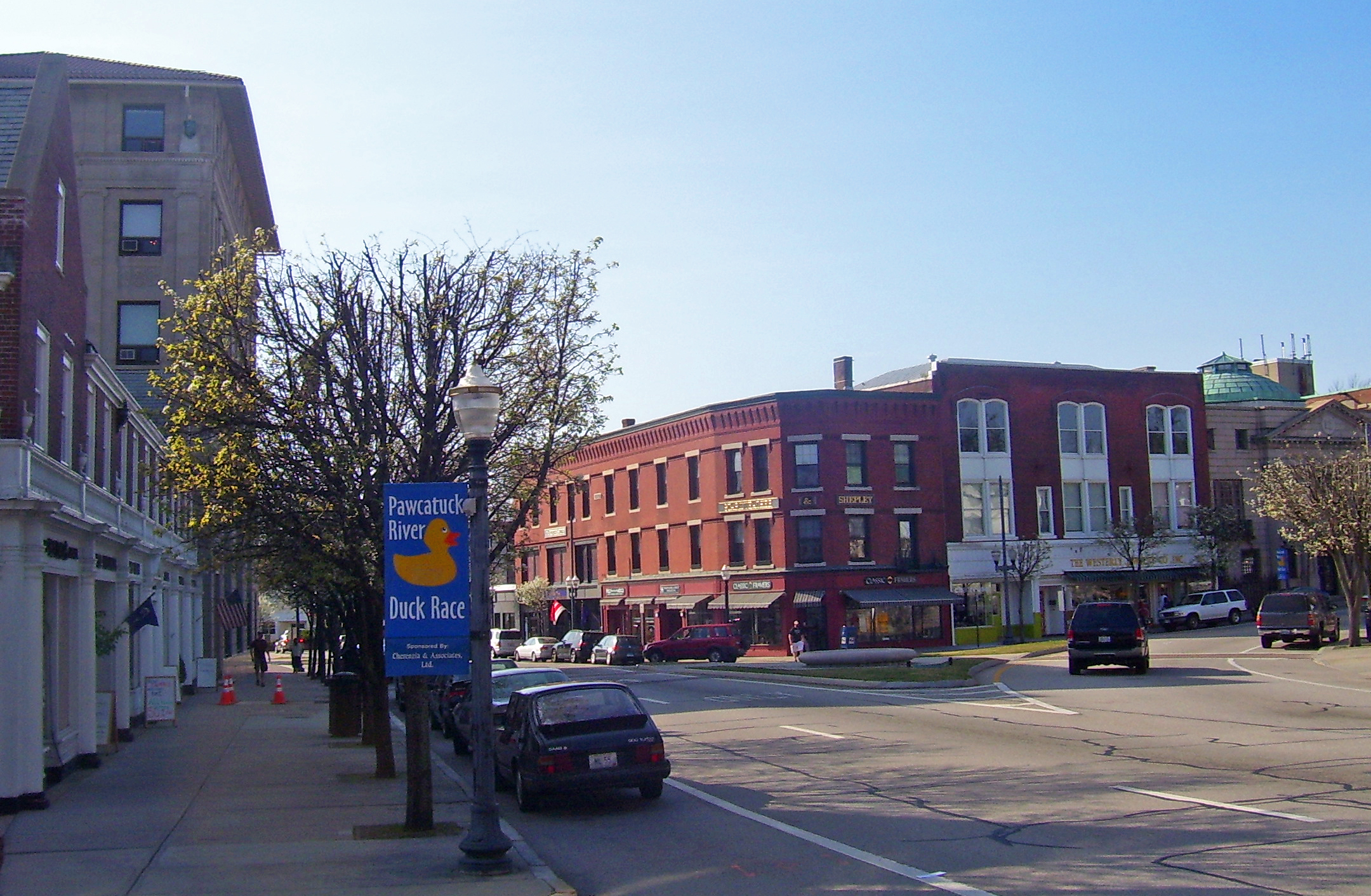 View along Broad Street (US 1) in Westerly, RI, USA, part of the Westerly Downtown Historic District